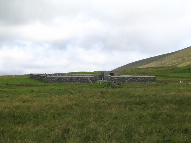 Cemetery at North Huxter